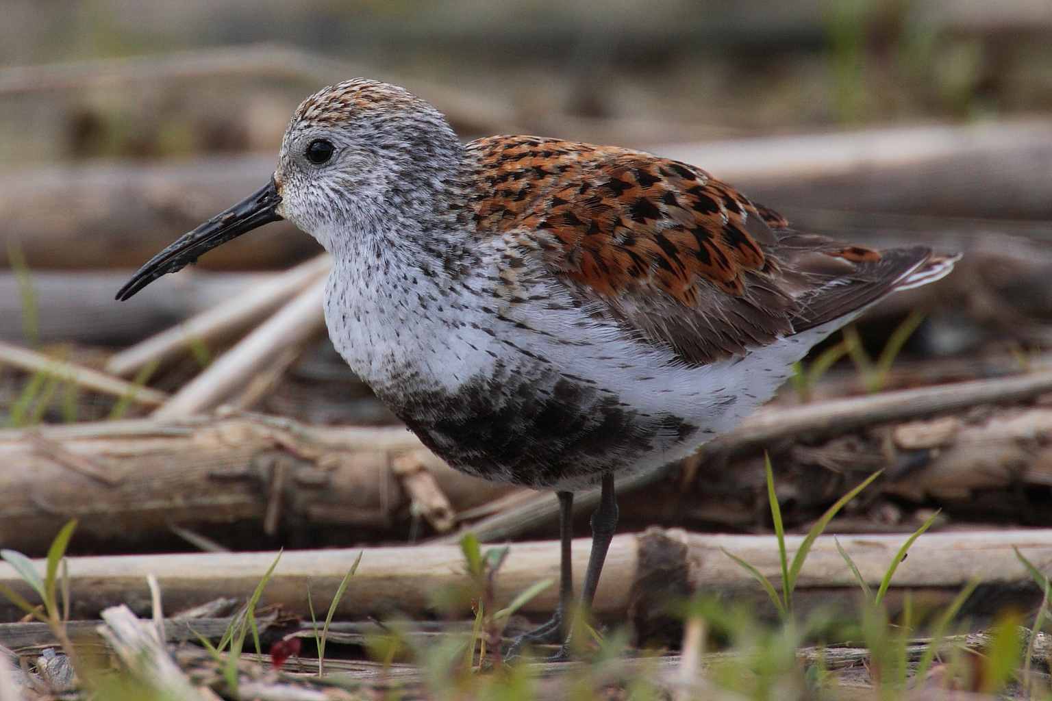 Dunlin Calidris alpina, Hillman Marsh (near Point Pelee), Canada